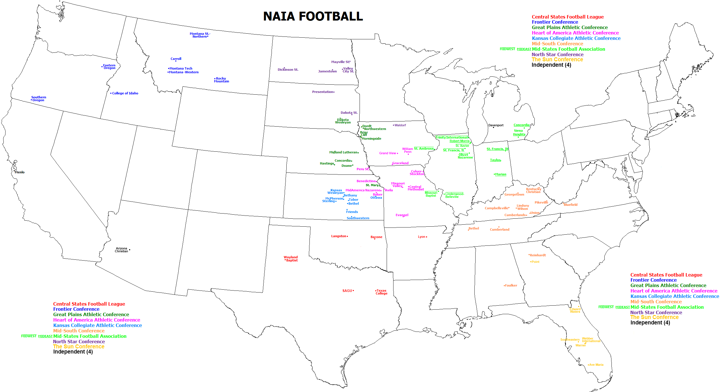 A map of all National Association of Intercollegiate Athletics (NAIA) schools playing college football.